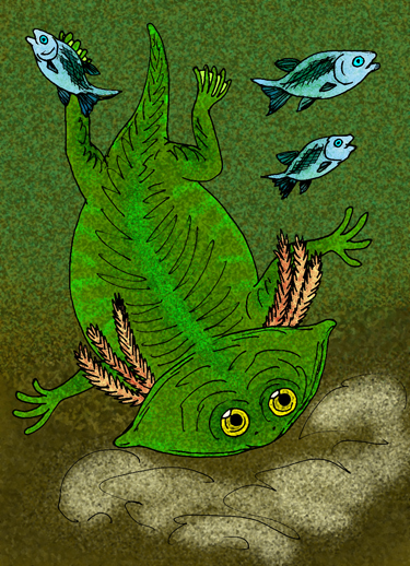 My reconstruction of the Triassic amphibian, Gerrothorax rhaeticus, of what is now Sweden. (c) Stanton F. Fink